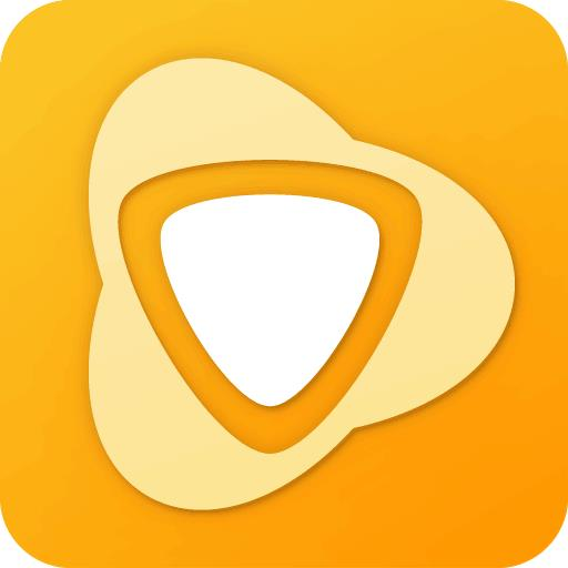 GetJar Logo as of end of 2012